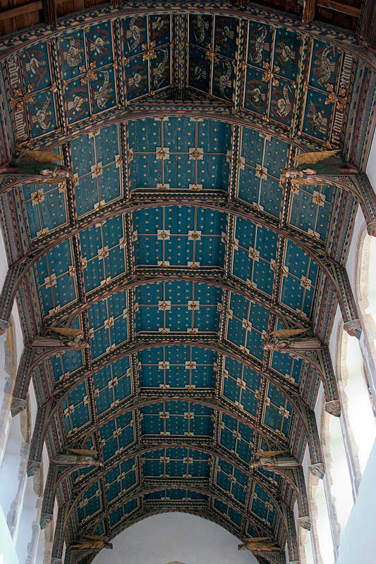 Roof of St. Edmund's Church, Southwold, U.K. (internal view)